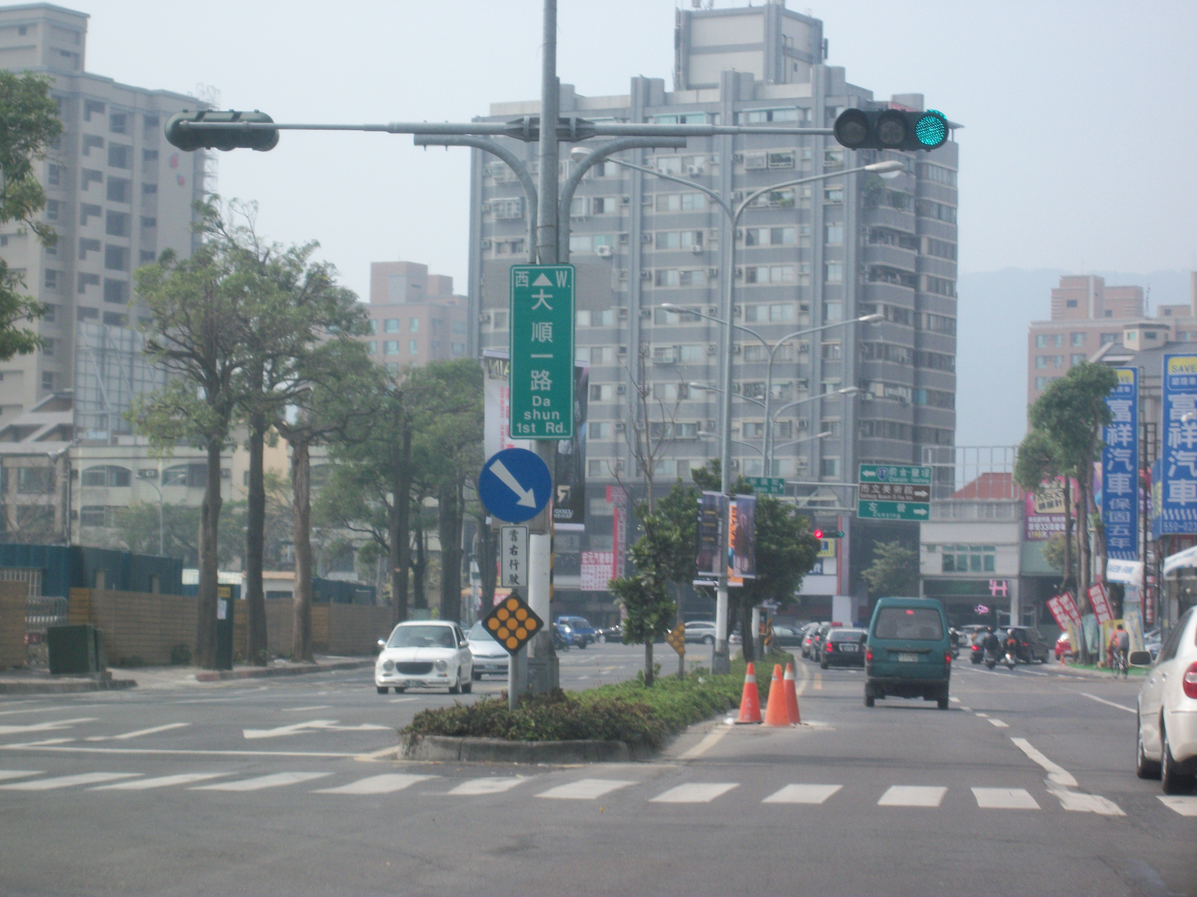 Looking westward alongside the Dashun 1st Road in Kaohsiung City,Taiwan.The photo was taken from the intersection of Yucheng Road.